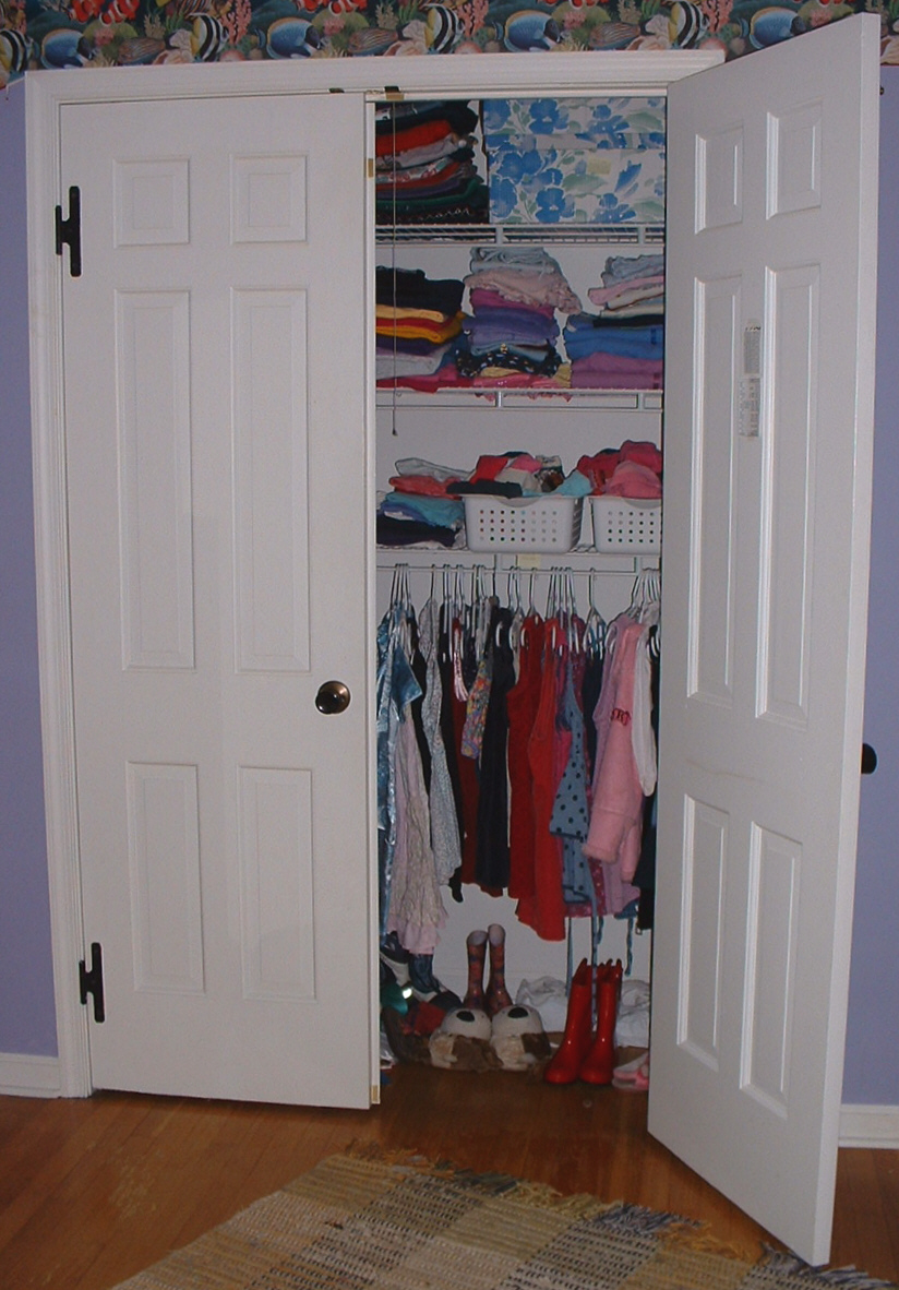 Wall Closet (USA)